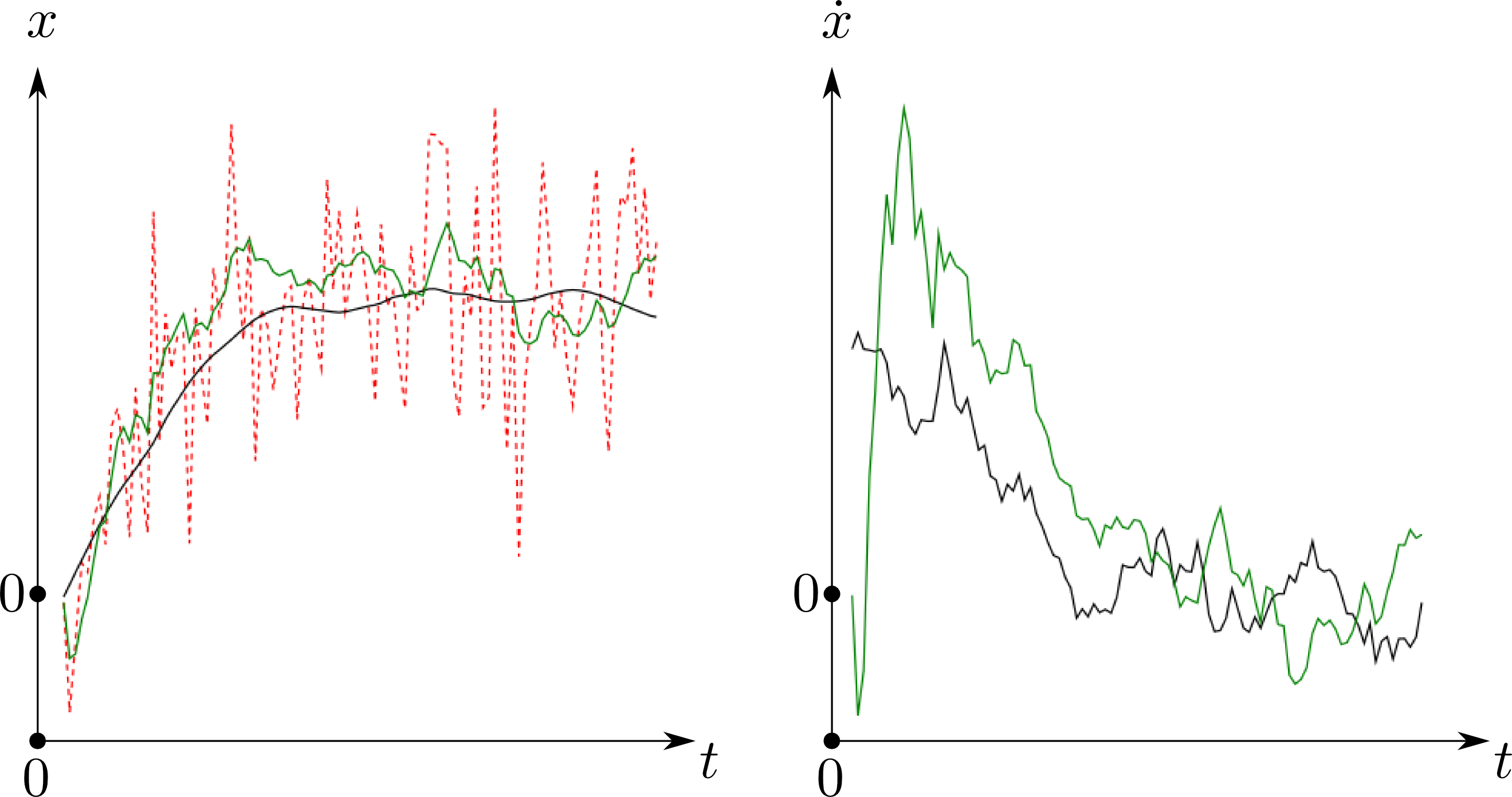 See article Kalman filter, Example application, technical